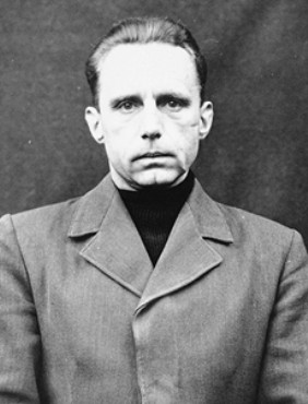 Portrait of Wilhelm Beiglboeck (1905-1963) as a defendant in the Medical Case Trial at Nuremberg. [Photograph #07330]? Nuremberg, [Bavaria] Germany